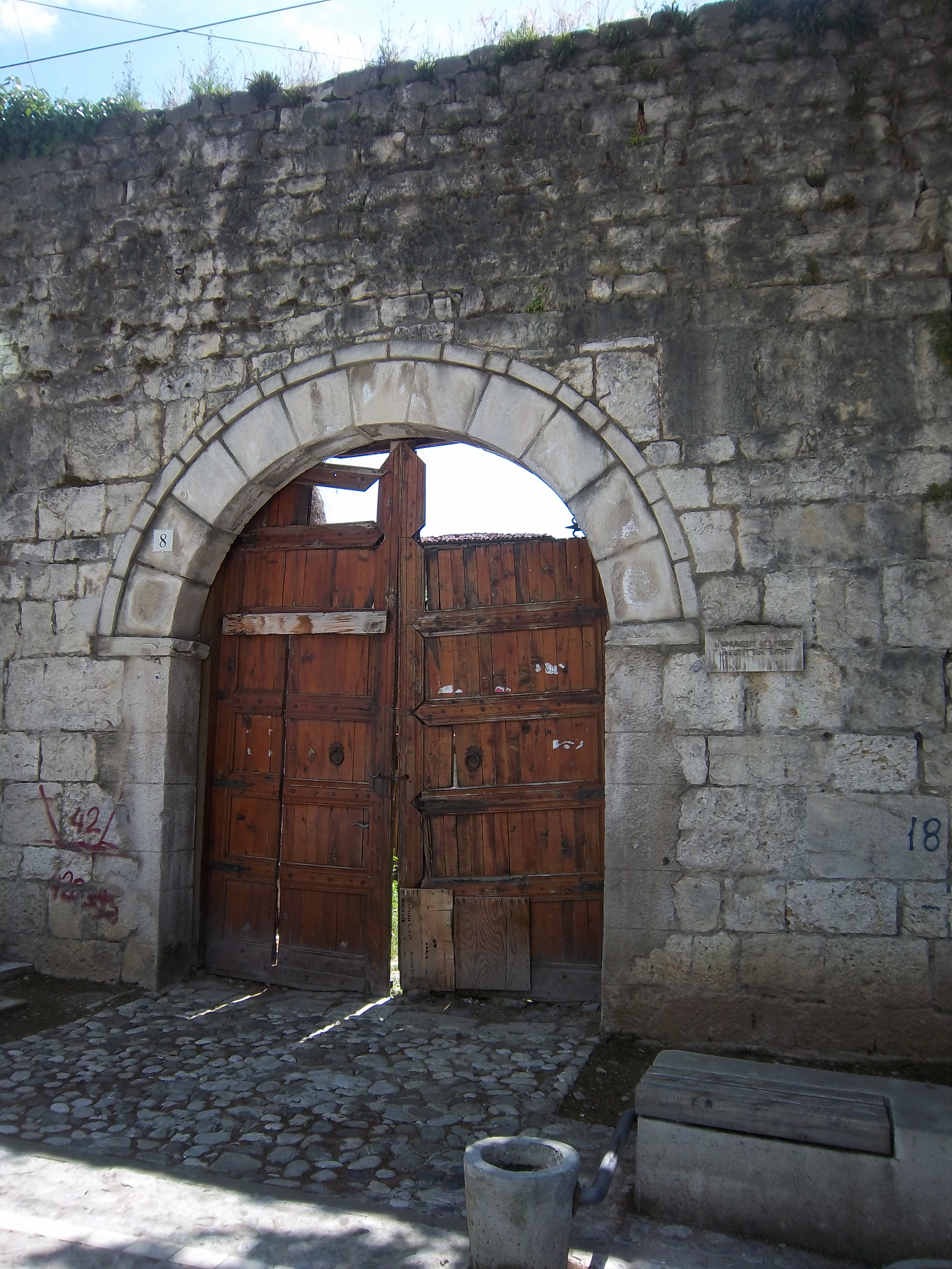 This picture was taken for the project "Tirana, let's get up!", implemented during the Balkans let's get up! Spring School in 2013.